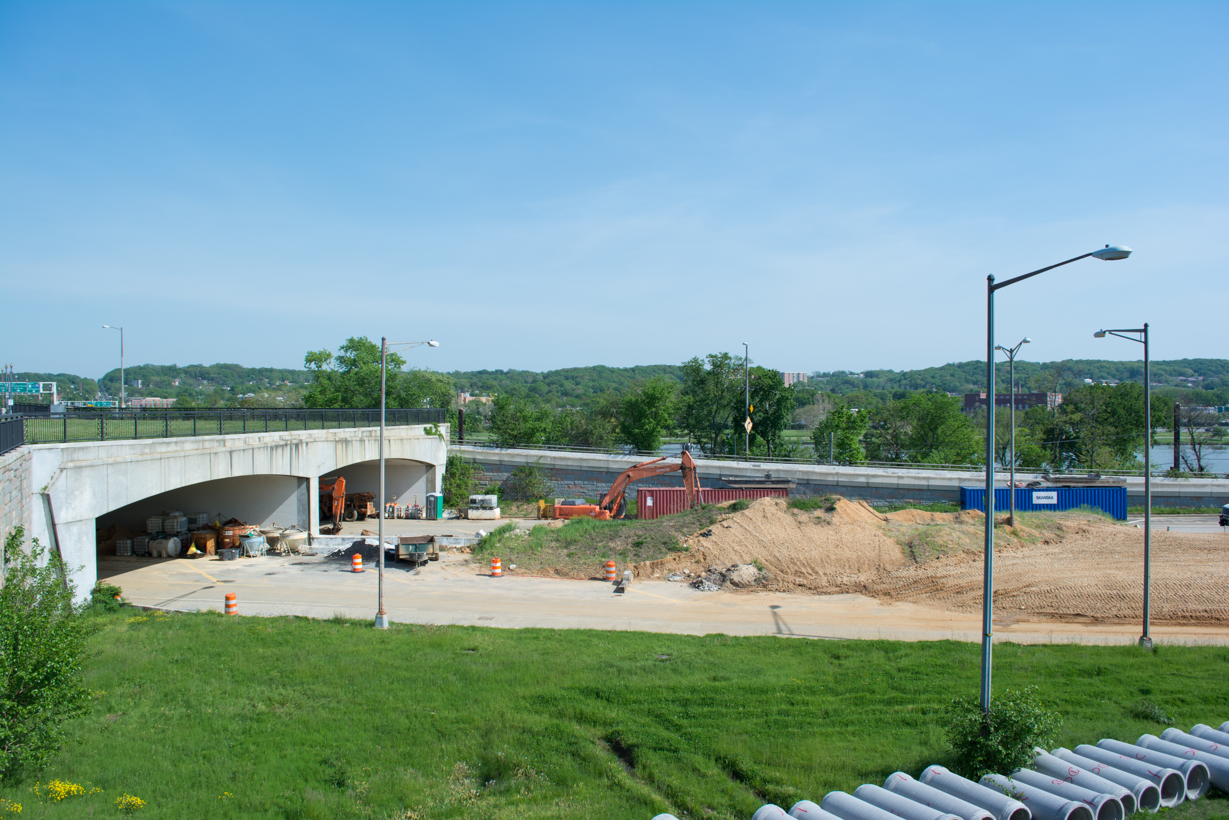 Looking southwest from Barney Circle along John Philip Sousa Bridge in Washington, D.C., in the United States in May 2014 at the now-unused Interstate 695 terminus next to the bridge's northern approaches. Interstate 695 was part of the proposed Inner Loop Expressway in Washington, D.C. The interstate highway was to have continued northward along the western shore of the Anacostia River to U.S. Route 50. Significant opposition to the Inner Loop led to its cancellation, but not before the portion of Interstate 695 from 2nd Street SW to Barney Circle had already been completed. The tunnels beneath the circle and bridge were constructed in 1970 as part of the interstate project. Interstate 695 from the 11th Street Bridges to Barney Circle was decommissioned in 2012, and the tunnels and connections with the stadium service road are now inaccessible and unused. The District of Columbia tore up the roadway, and began raising the roadbed by 20 feet. Construction on a new local road, "Southeast Boulevard", will conclude in 2016.